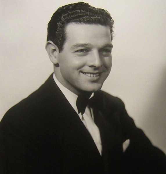 Robert Lowery in the film Charlie Chan's Murder Cruise (1940) - publicity still (original image cropped : see source)